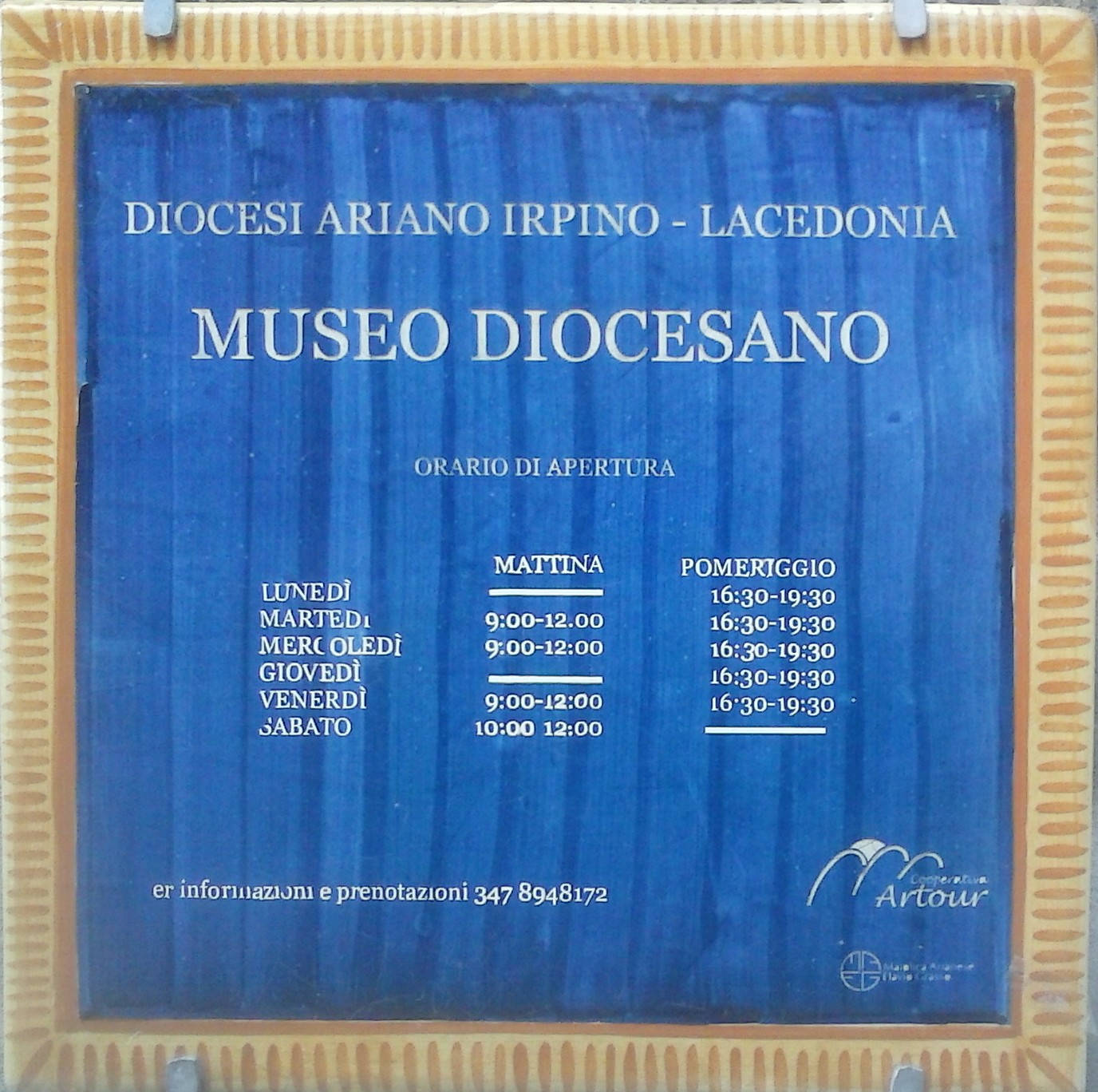 Diocesan museum of Ariano Irpino, Italy